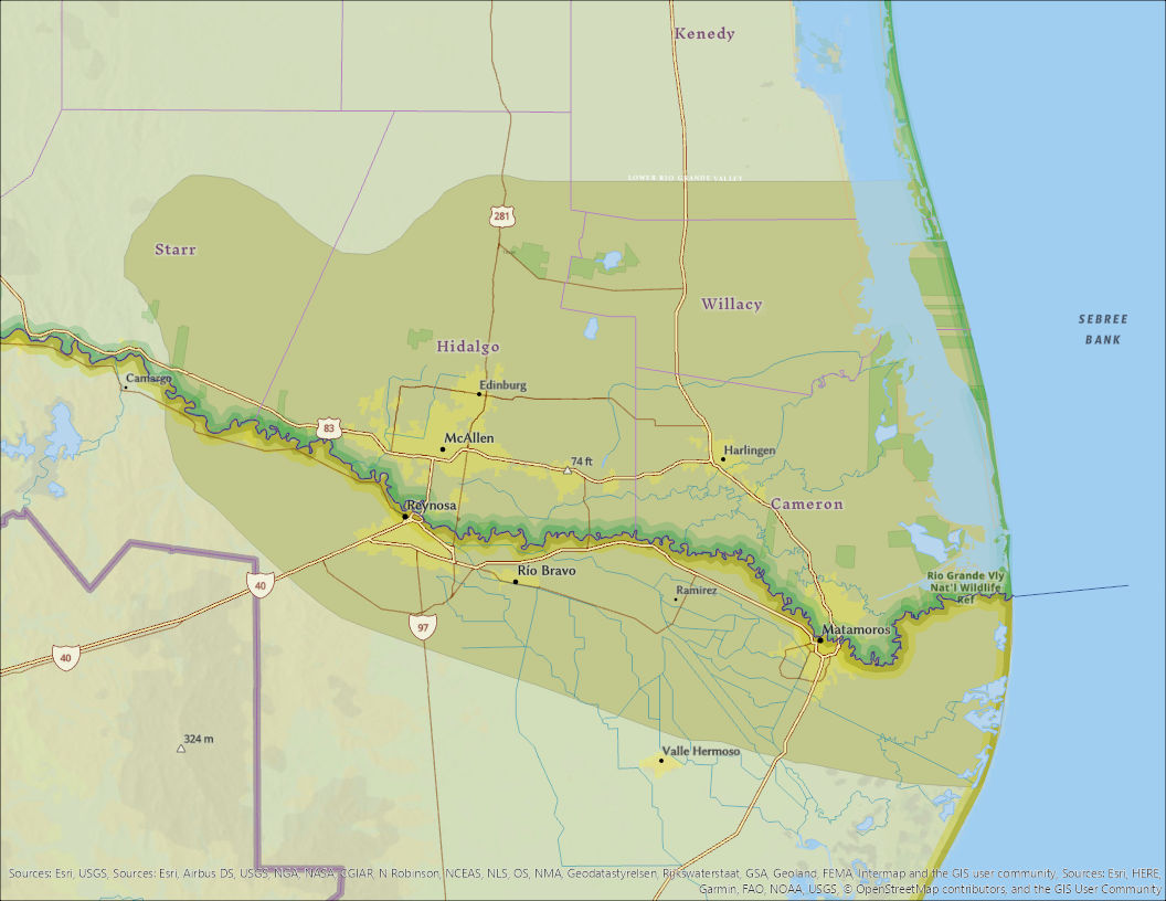 This is a binational map of the lower Rio Grande Valley in Texas and Mexico.